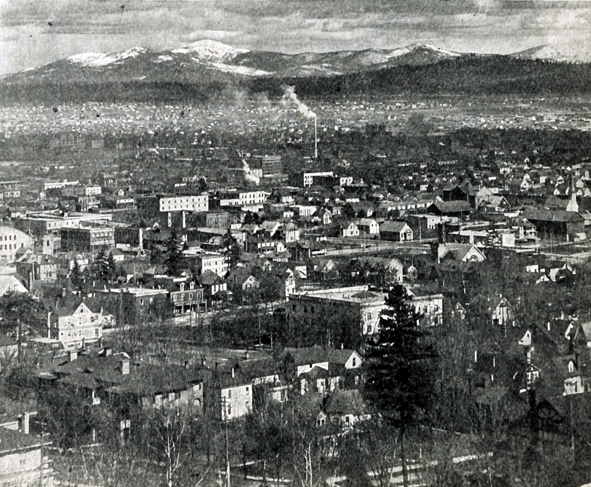 A bird's eye view of Spokane, Washington looking north in the mid 1910s. This image is taken from the 1914 textbook, New Geographies by Tarr & McMurphy, published by MacMillan.